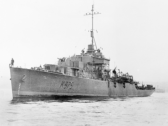 AWM Caption: SYDNEY, NSW. 1944-02-18. PORT BOW VIEW OF THE FRIGATE HMAS BARCOO (K375) SHOWING HER ORIGINAL APPEARANCE. SHE IS PAINTED DARK GREY, PROBABLY G10, ALL OVER. SHE IS FITTED WITH A TYPE 271 SURFACE SEARCH RADAR ABOVE THE BRIDGE FLANKED BY THE SEARCHLIGHTS. AN AMERICAN SC-1 AIR SEARCH RADAR IS SITUATED ATOP THE FOREMAST AND TRAINED ON THE PORT BEAM. HER 4 INCH MK XVI GUNS ARE ON SINGLE MK XX MOUNTINGS FORE AND AFT. THIS MOUNTING WAS UNIQUE TO AUSTRALIAN WARSHIPS. HER CLOSE RANGE ARMAMENT CONSISTS OF EIGHT 20 MM OERLIKON GUNS MOUNTED PORT AND STARBOARD IN SINGLE MOUNTINGS IN THE BRIDGE WINGS, JUST BEFORE THE BREAK OF THE FORECASTLE DECK, PARTLY OBSCURED BY THE BOAT, AND ON THE QUARTERDECK JUST AFTER THE GUN DECK. (NAVAL HISTORICAL COLLECTION).